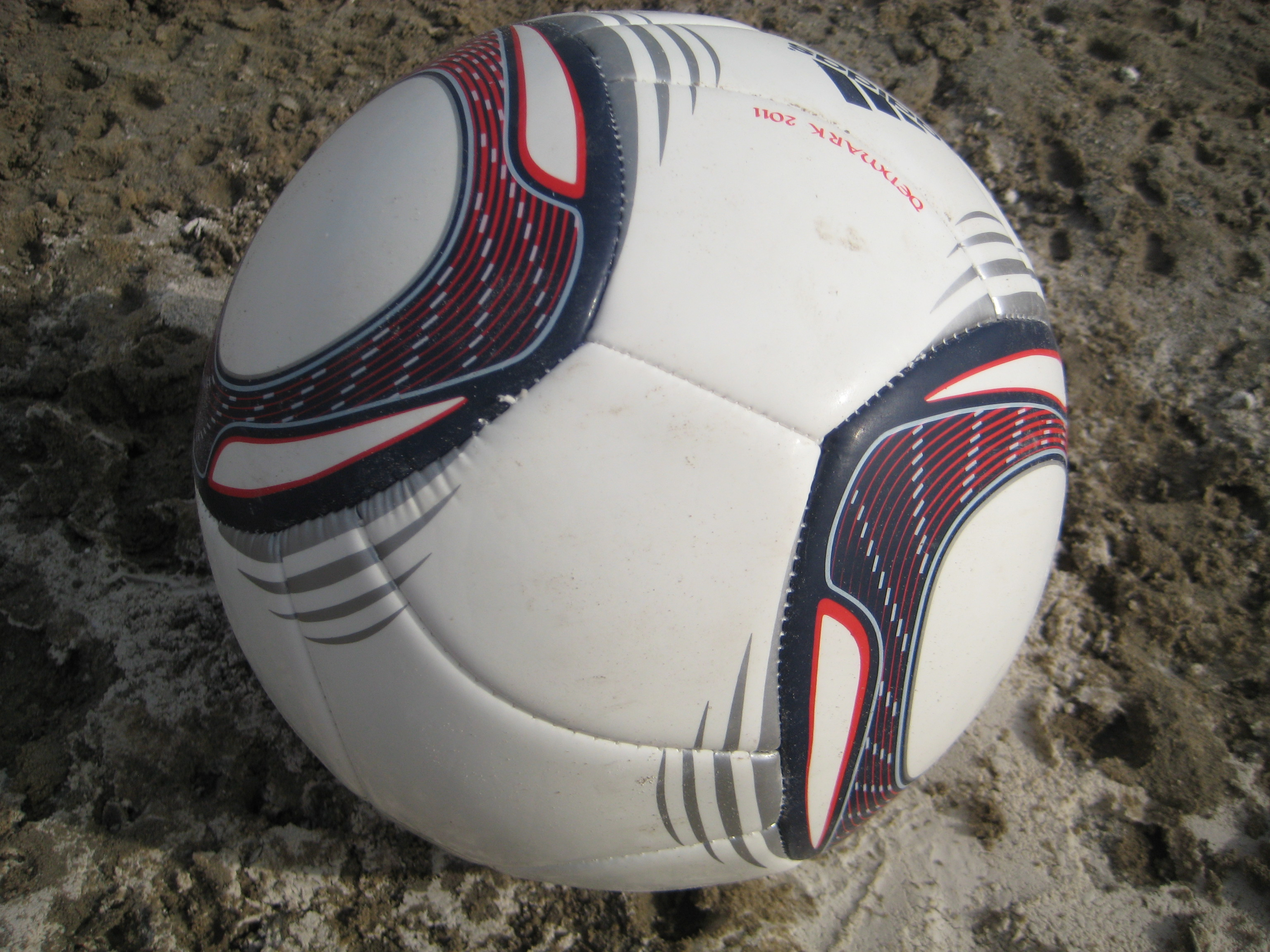 Football